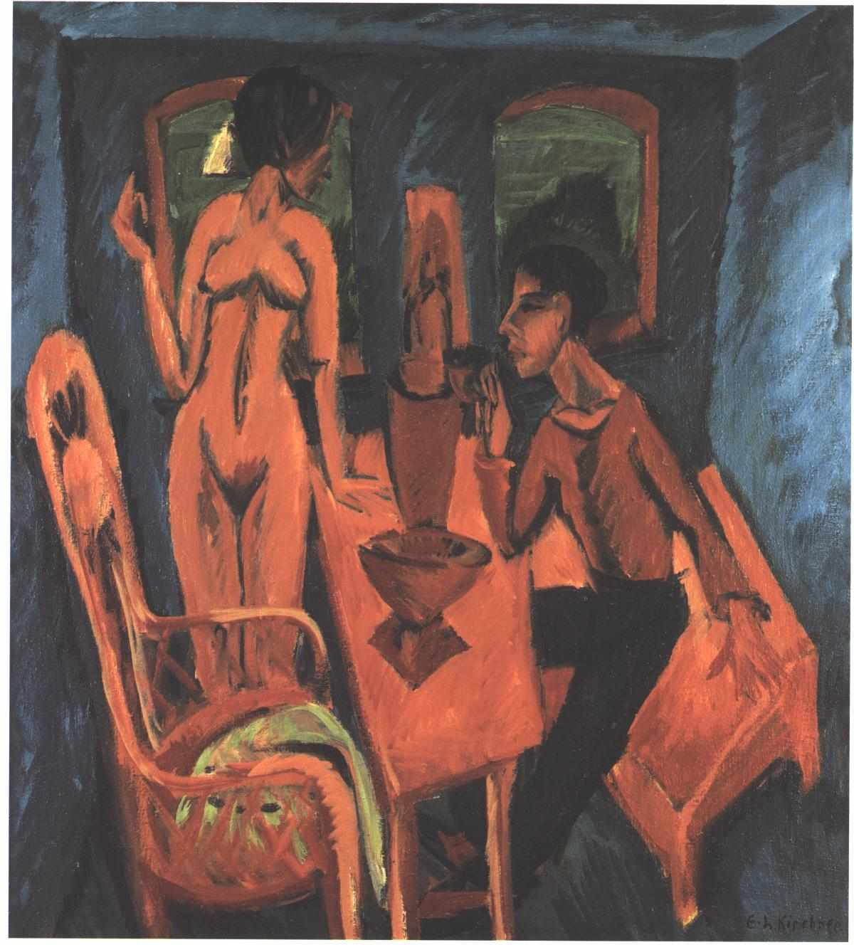 Tower room - Selfportrait with Erna